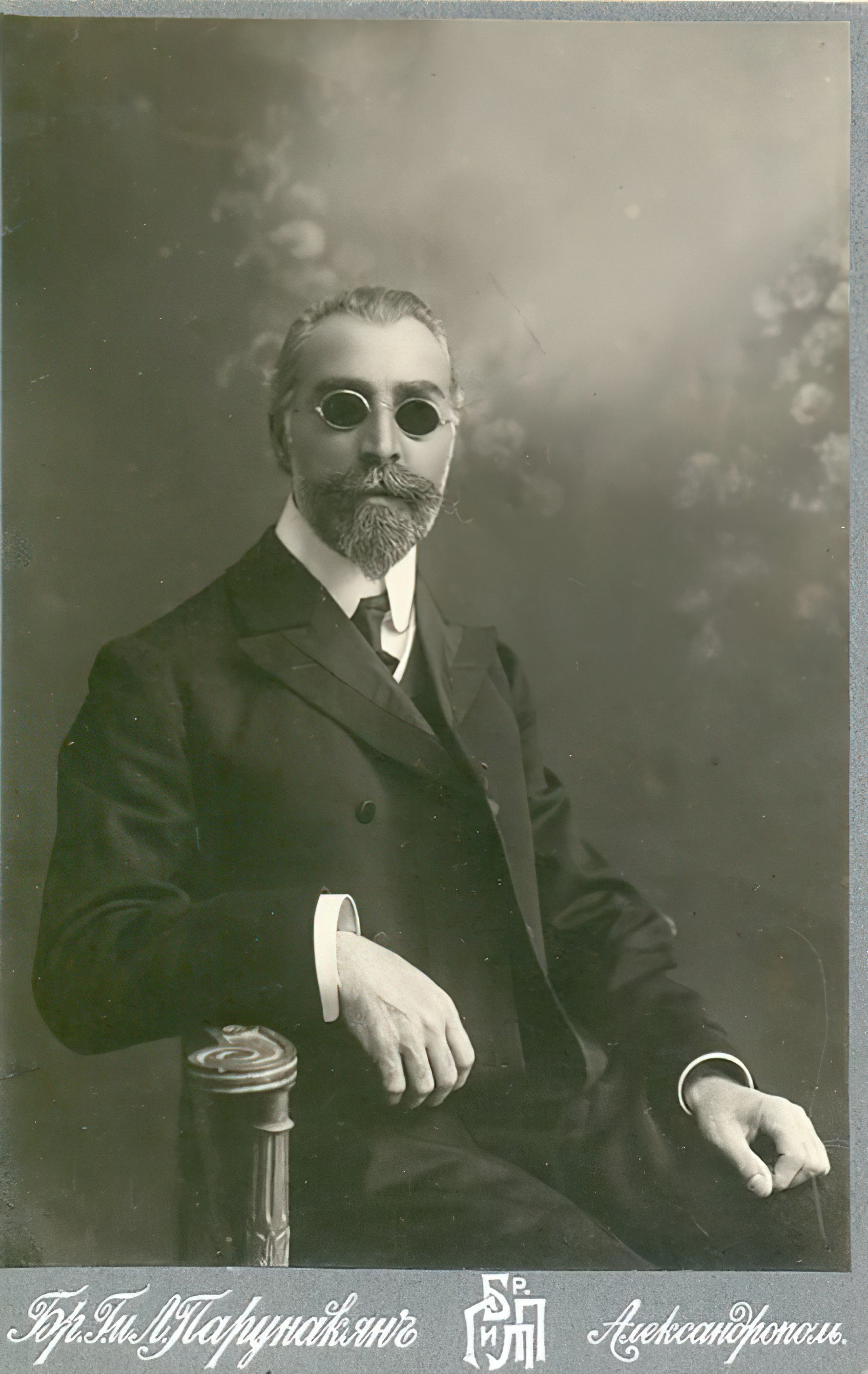 Nikoghayos Tigranian (31 August 1856, Gyumri – 17 February 1951, Yerevan) was an Armenian composer, ethnomusicologist and pianist. He was granted the titles of People's Artist of Armenia (1933) and Hero of Labour (1936). In 1921, Nikoghos Tigranyan implemented the Braille System for the first time in Armenia at the Gyumri school he founded.